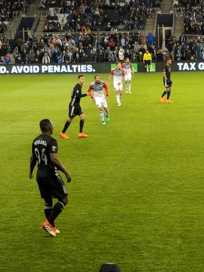 Jimmy Medranda (foreground) playing verse DC United Saturday 3/31/18 at Sporting Park.